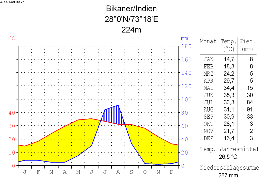 climate chart in the format by Walter and Lieth, metric, °Celsisus and millimeters, made with Geoklima 2.1